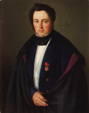 Aleksander Hripkov: Friedemann Goebel (1841), oil, 78,5 × 60,5 cm Signed: Хрипковъ / 1841, collections of Tartu University